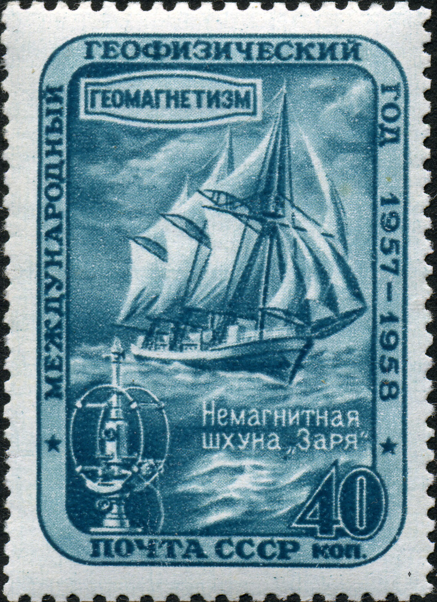 Non-magnetic oceanographic research vessel ZARJA (or ZARYA). Soviet stamp, 1958